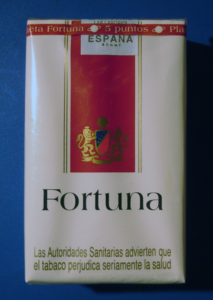 Fortuna cigarettes box(Spain), front)